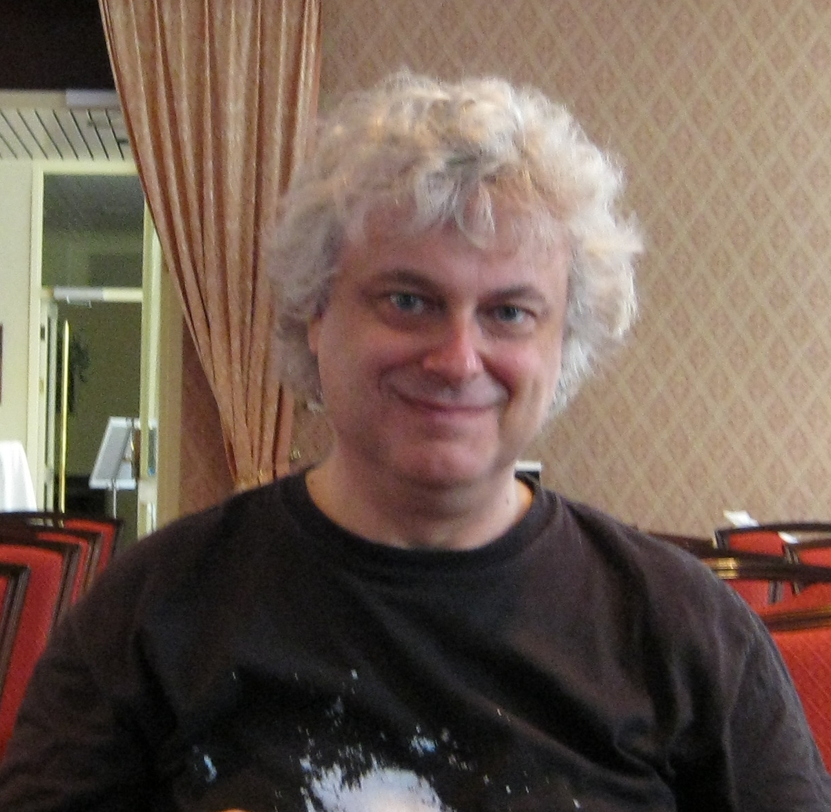 John Nunn, chess grandmaster